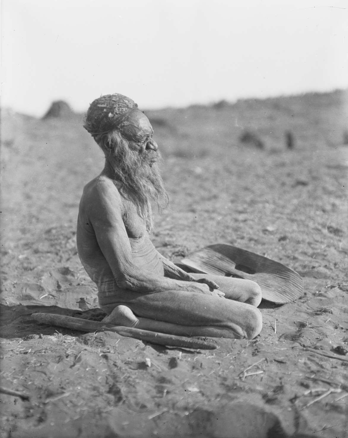 This Western Arrernte man's name was Kai Kai (in Basedow's spelling) and Basedow photographed him in the Aboriginal camp attached to Henbury station, Northern Territory, in 1920. He was a native doctor. Kai Kai told Basedow he remembered the first white people to reach that region, possibly in the 1860s. Unfortunately, Basedow does not provide any indication of who they may have been.